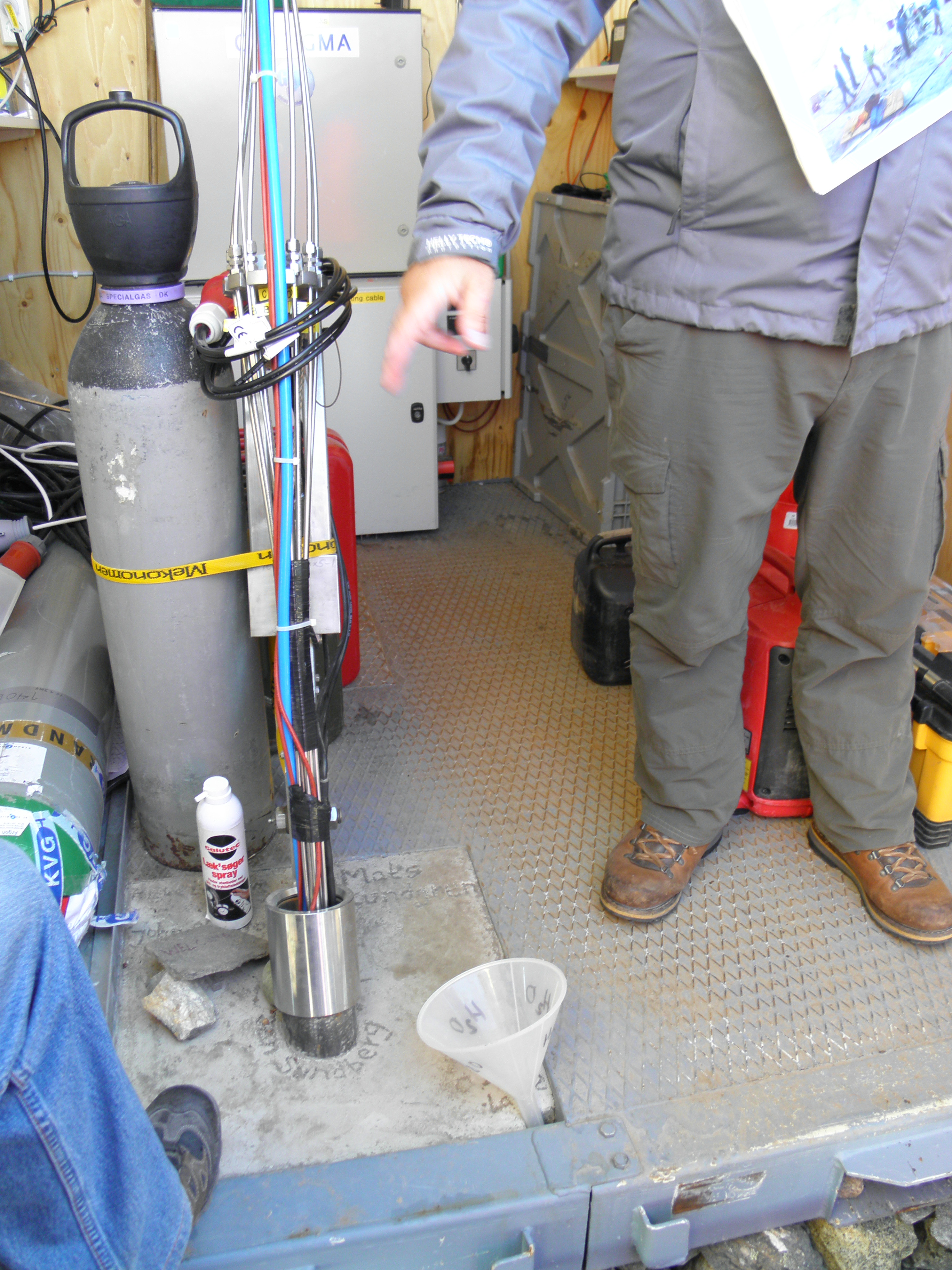 The managing director of the Geologial Survey of Denmark Johnny Fredericia is pointing to the borehole GAP 04 which goes up to 700 m depth under the Ice Cap in Greenland.